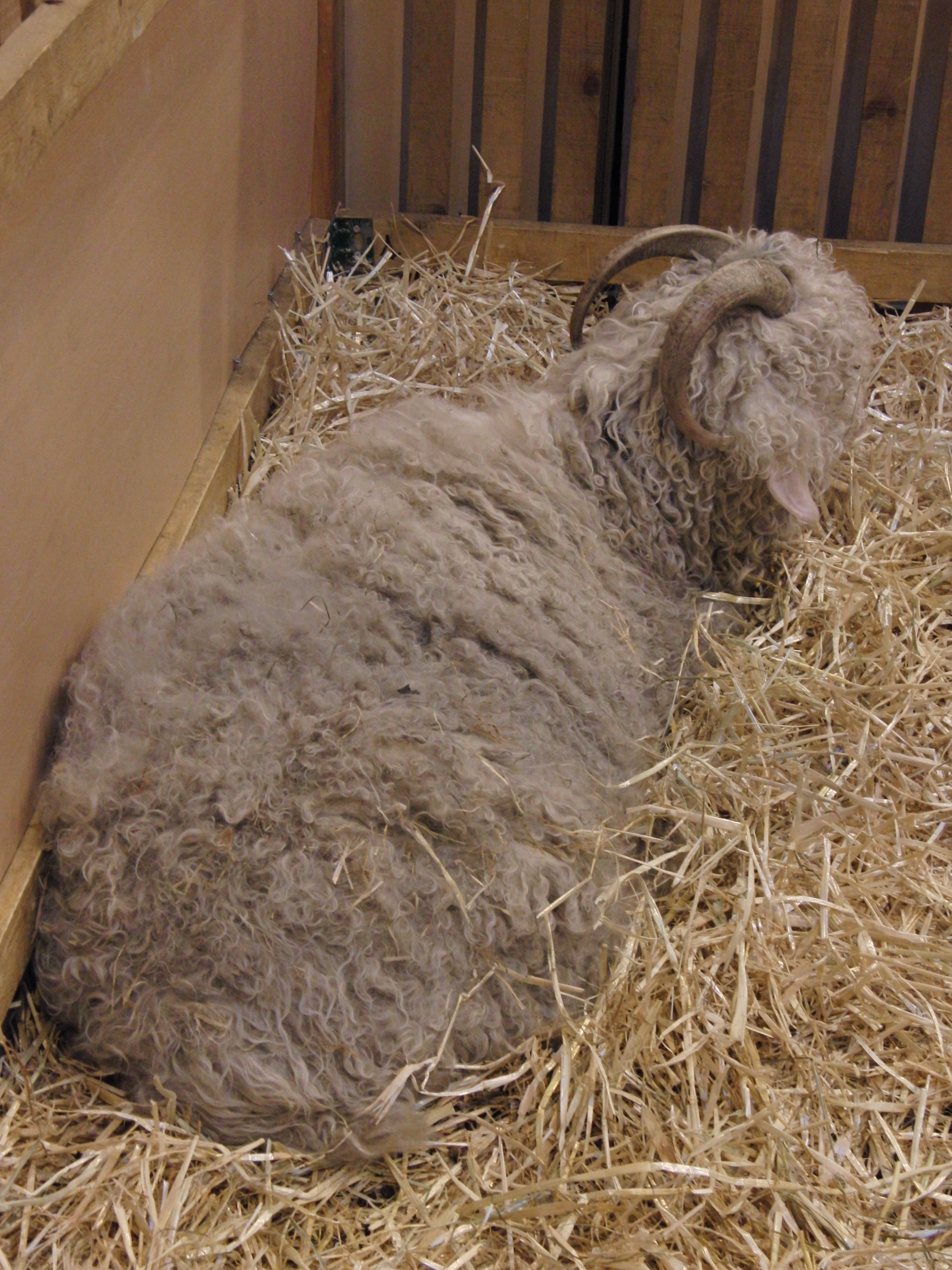 Angora goat - Salon international de l'agriculture 2011, Paris, France